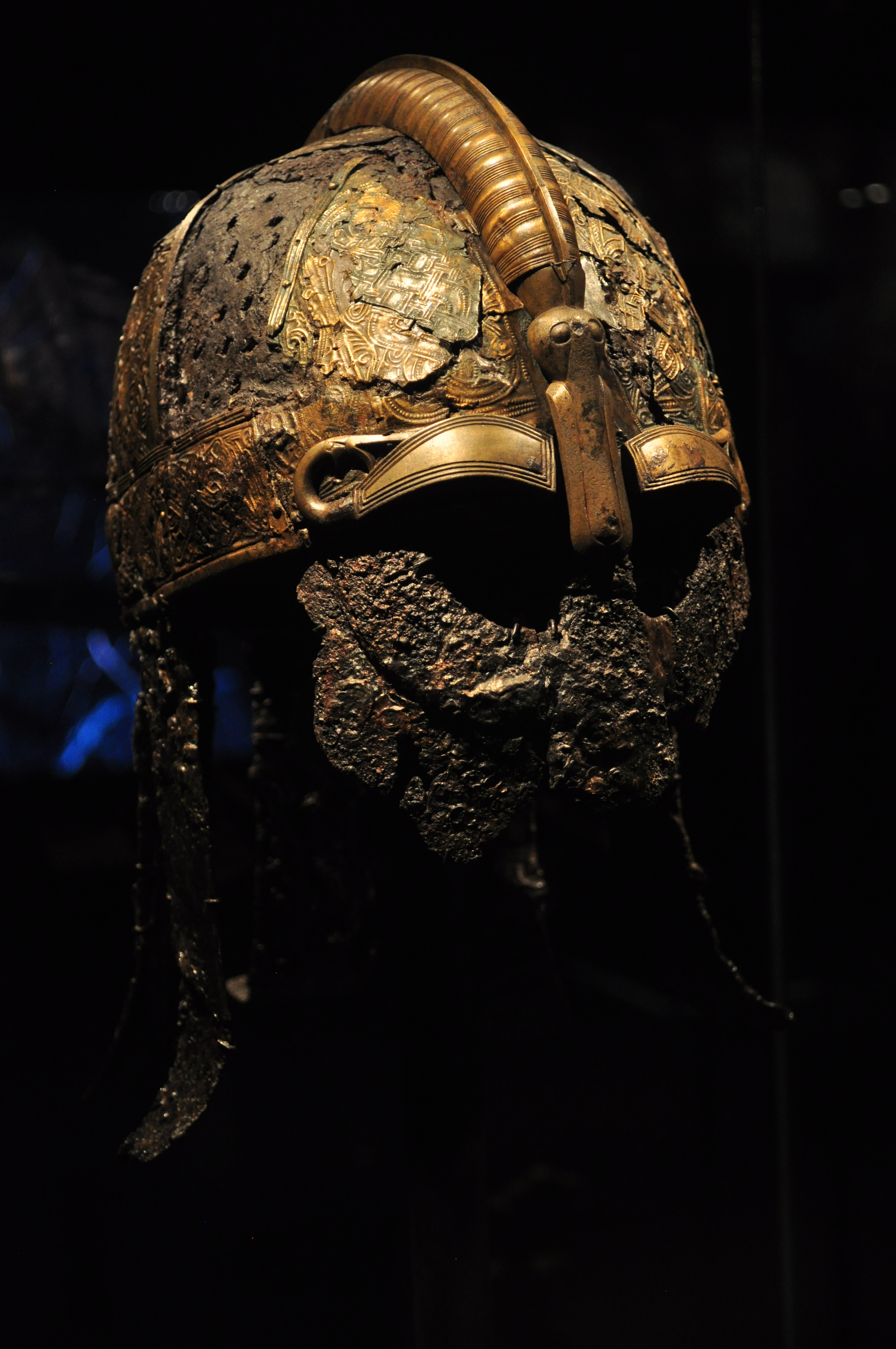 Warrior helmet, Valsgärde boat grave 5, 7th century, "The Vikings Begin" exhibit, Nordic Museum, Seattle, Washington, U.S.